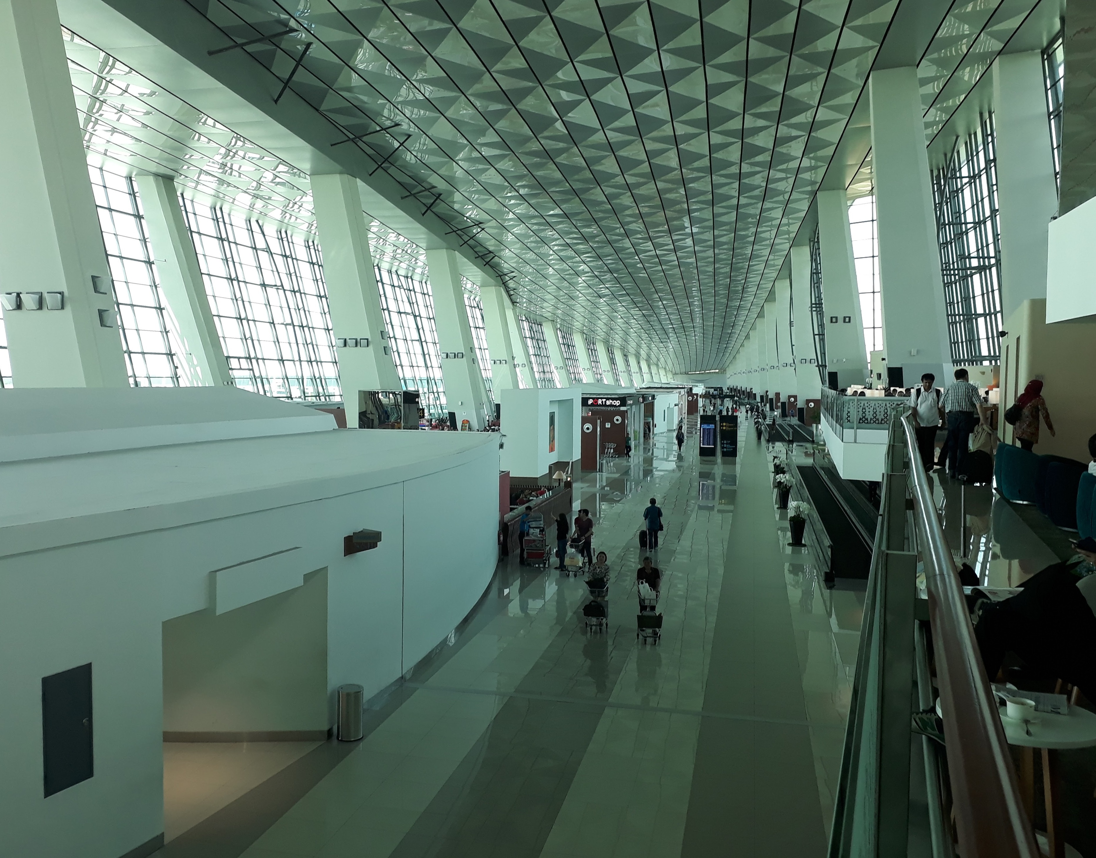 Terminal 3, Soekarno-Hatta Airport, Jakarta